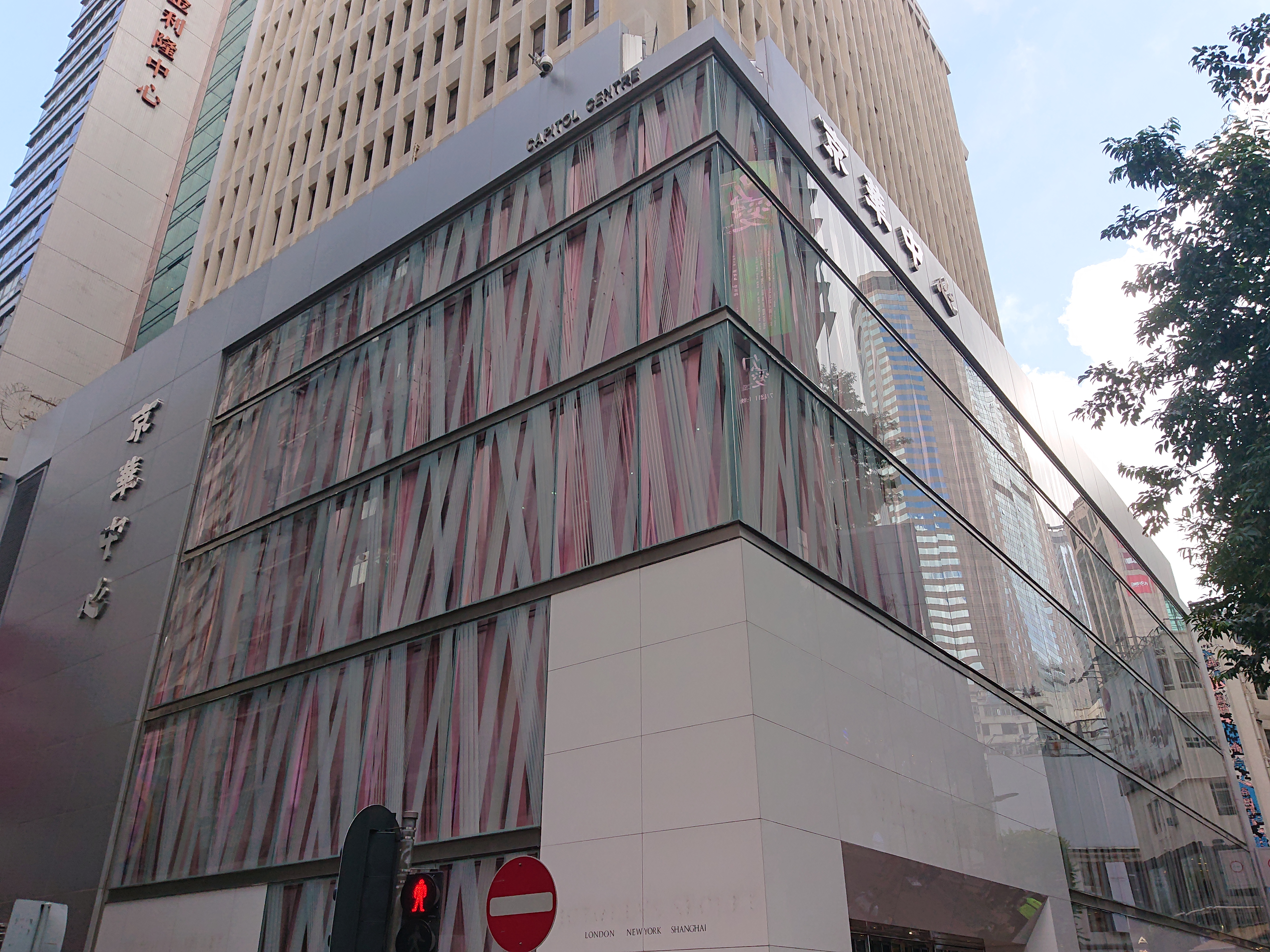 Capitol Centre in Jul 2020